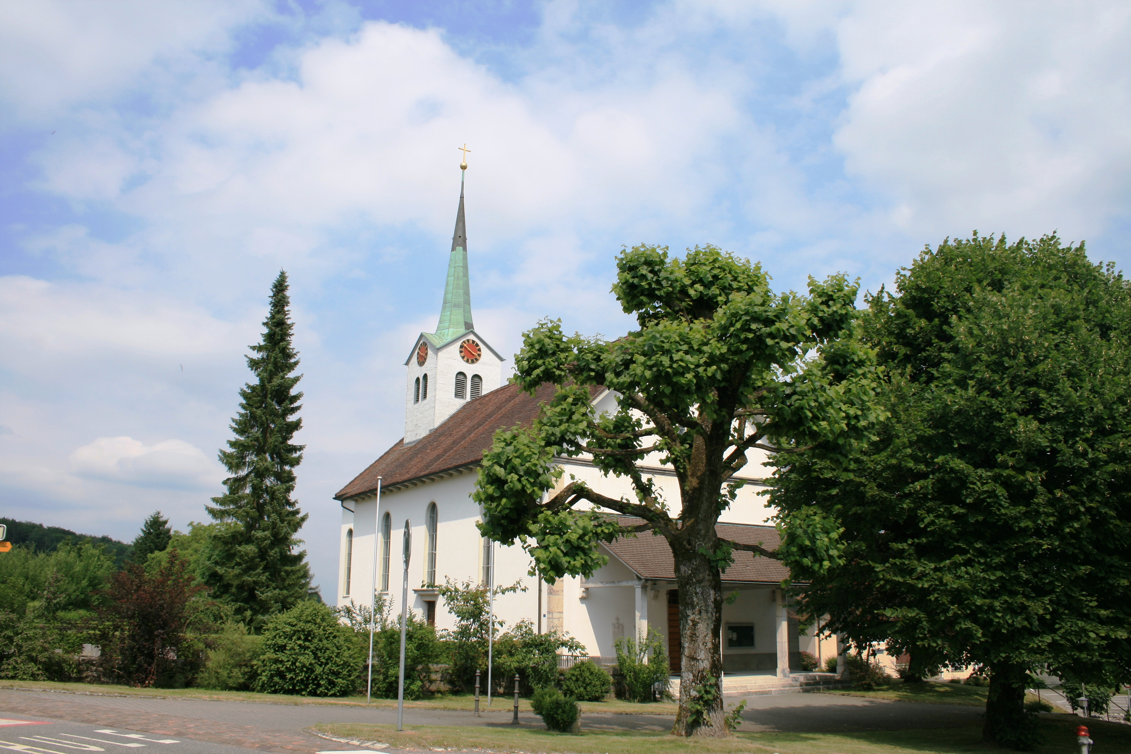 Rom.-cath. Church Walterswil SO, Switzerland